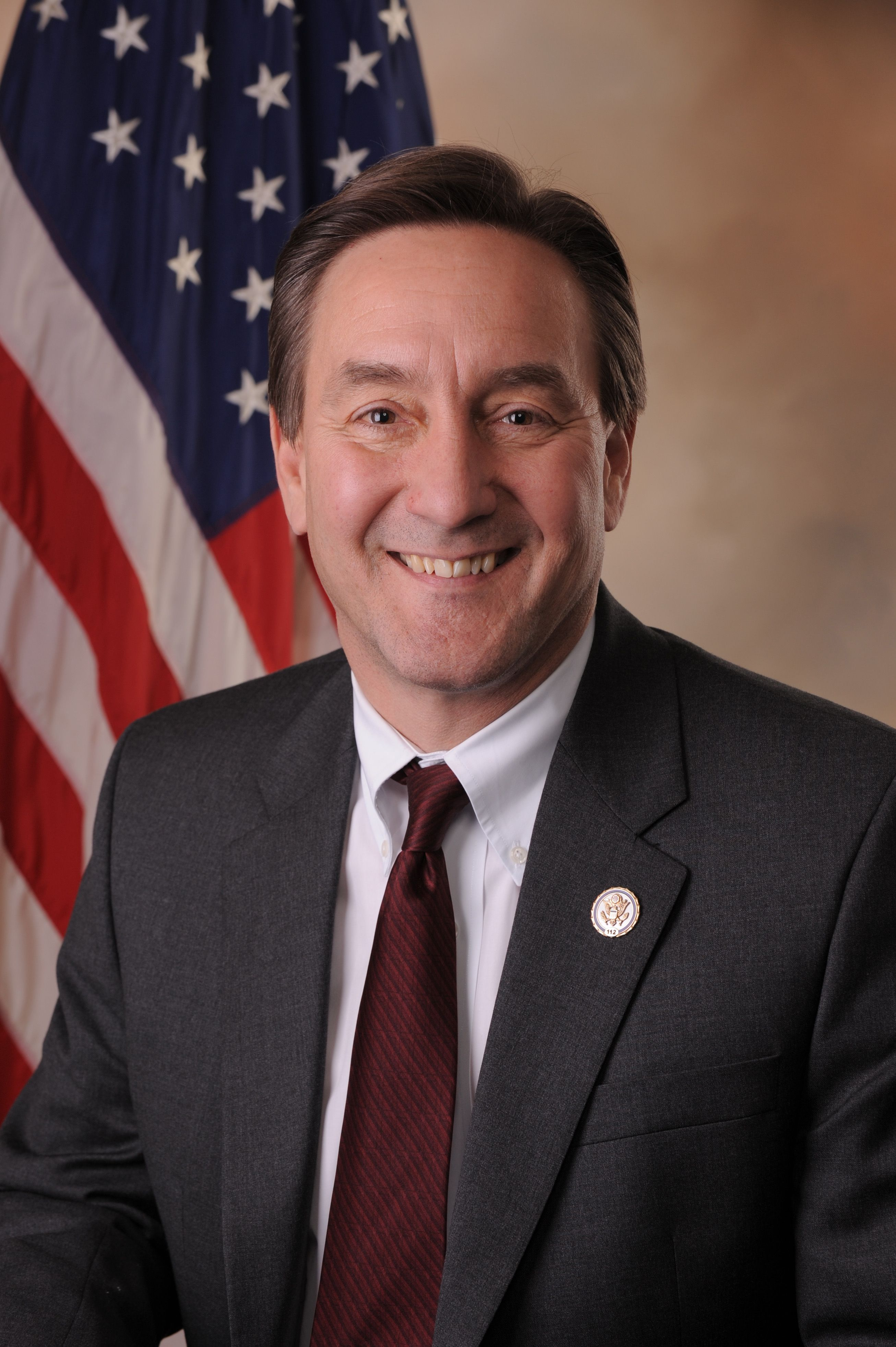 Official portrait of Rep. Rick Berg.